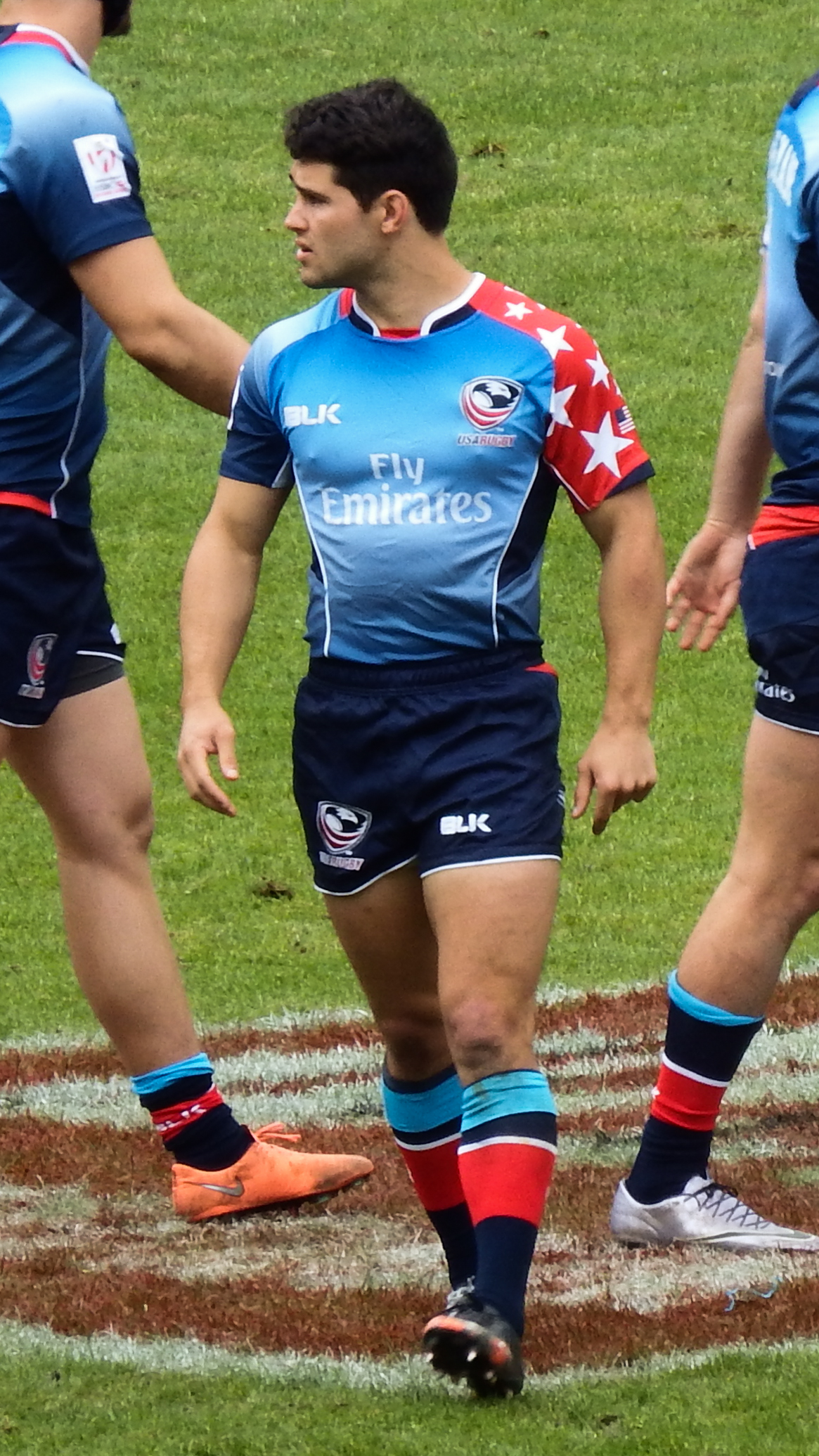 2016 Paris Sevens — 14 May 2016, stade Jean-Bouin. Match between: United States — Canada